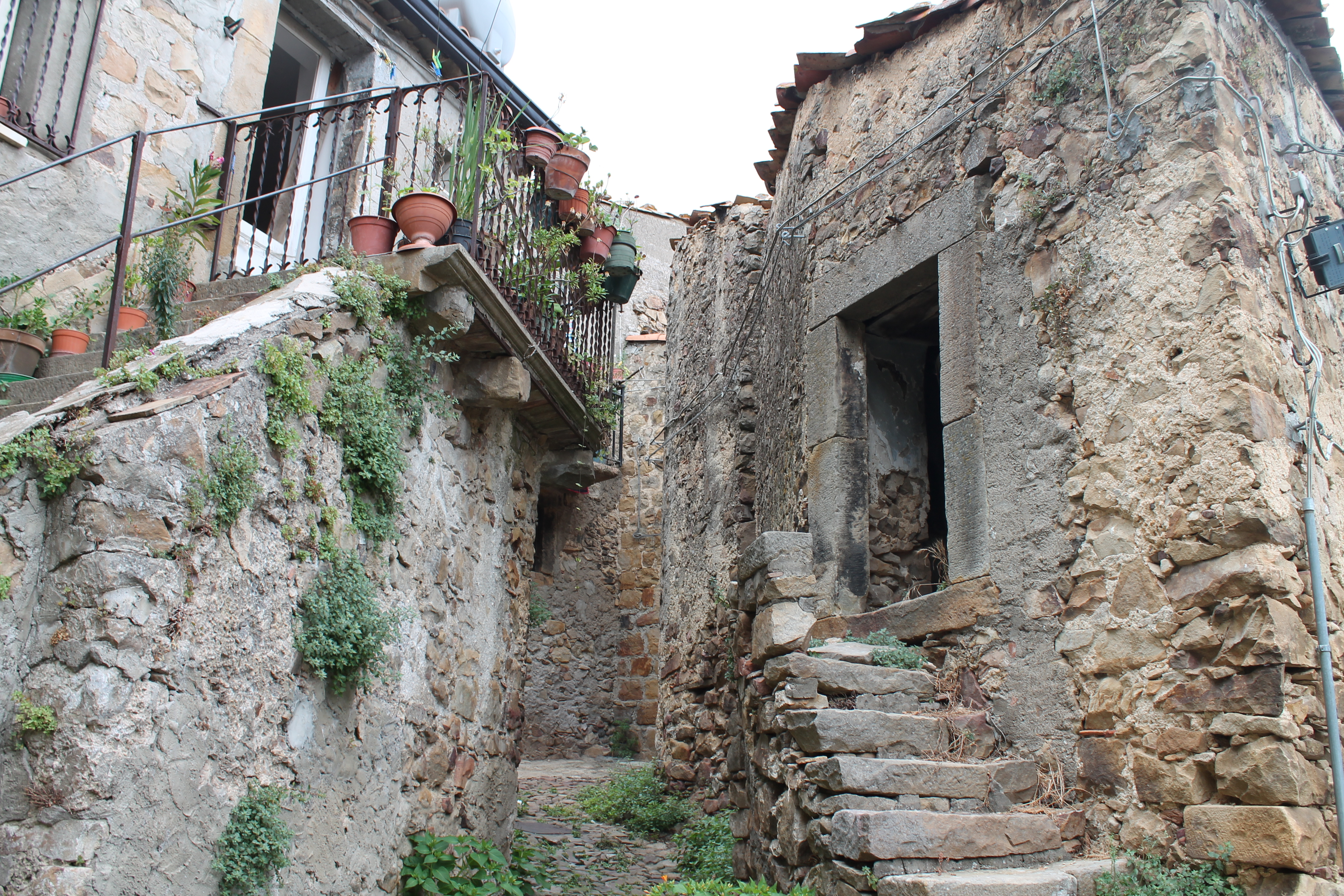 This is a photo of a monument which is part of cultural heritage of Italy.